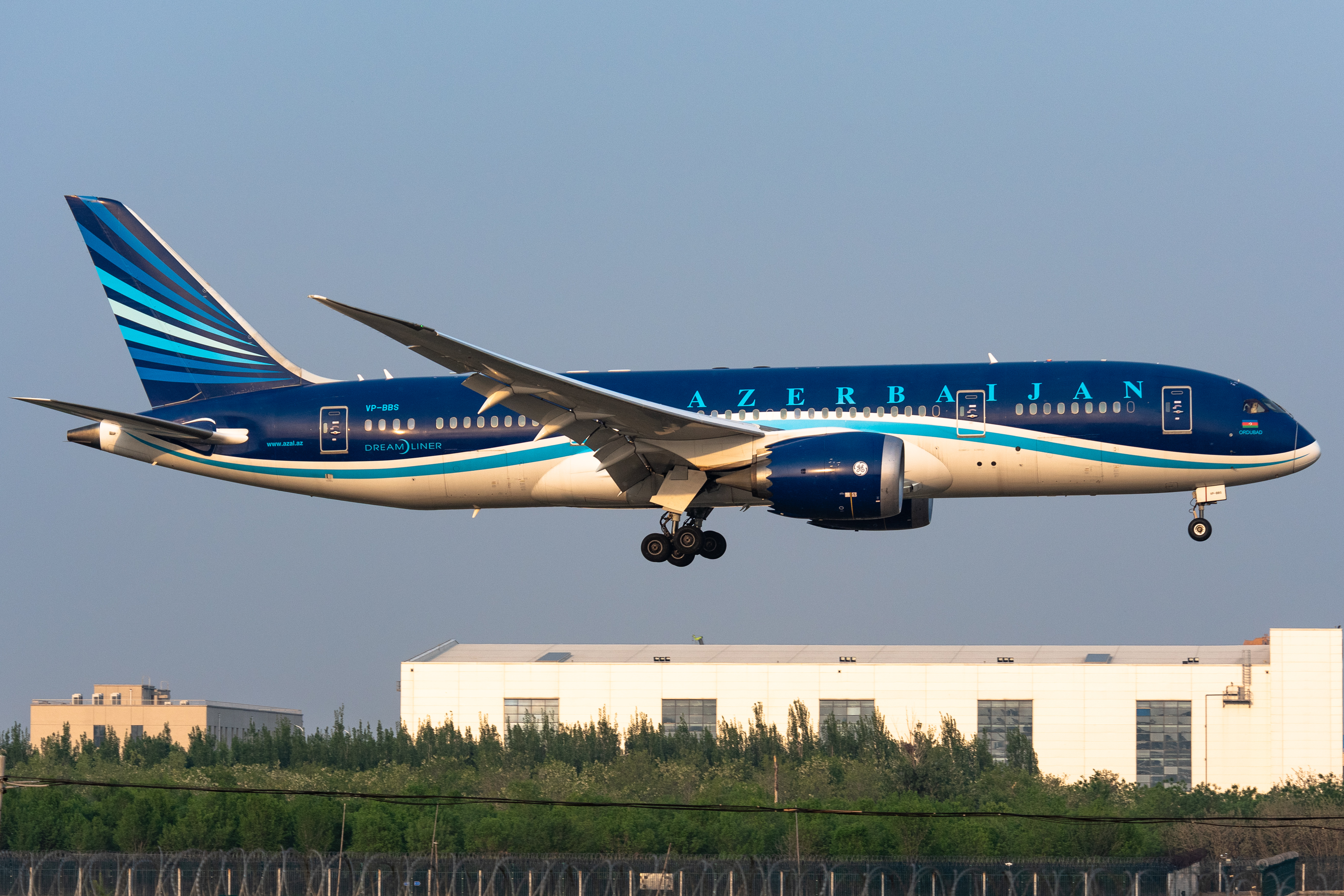 AHY5067 from Baku, with pilot in protective suit!